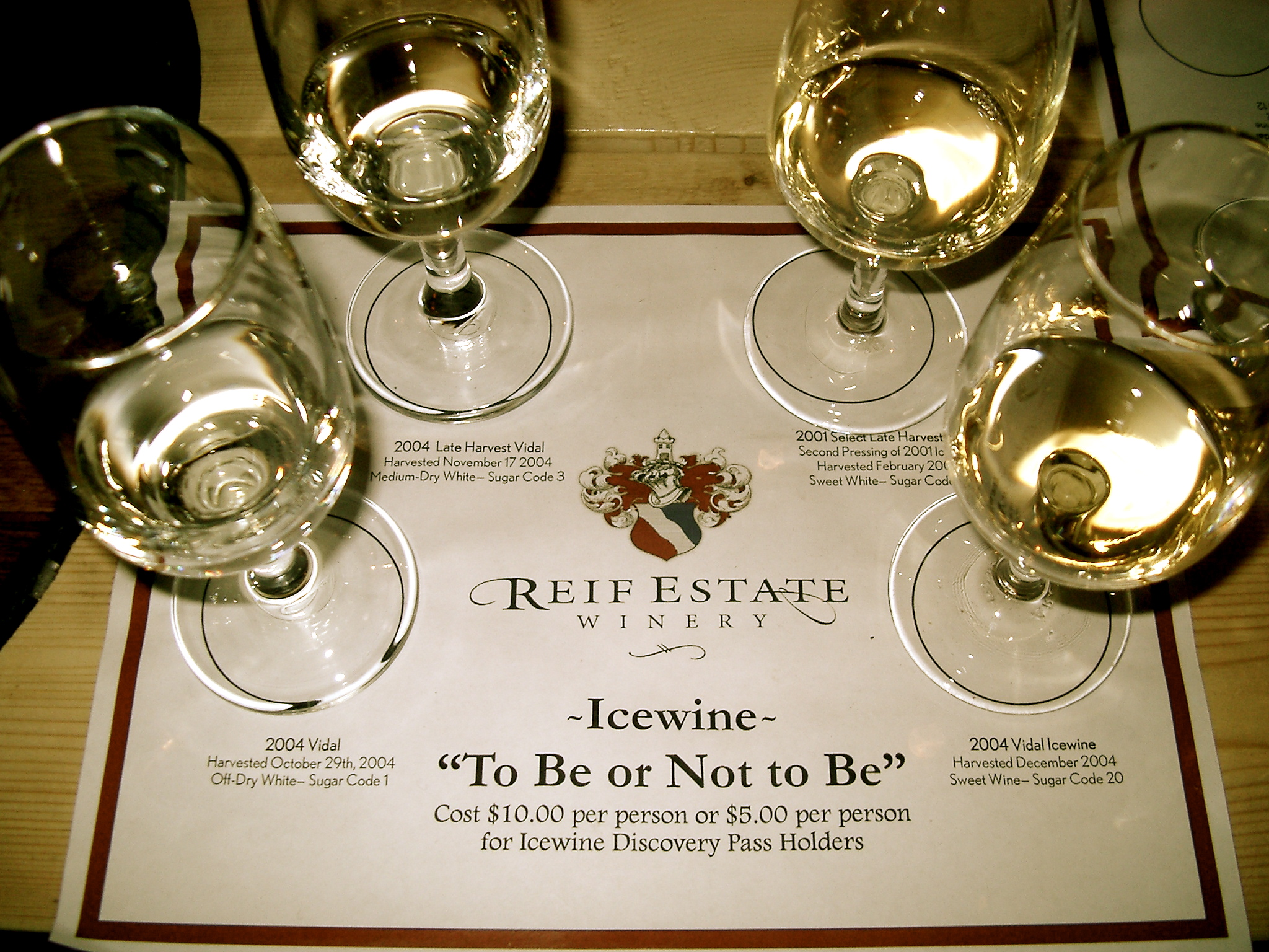 A flight of ice wines from Niagara region